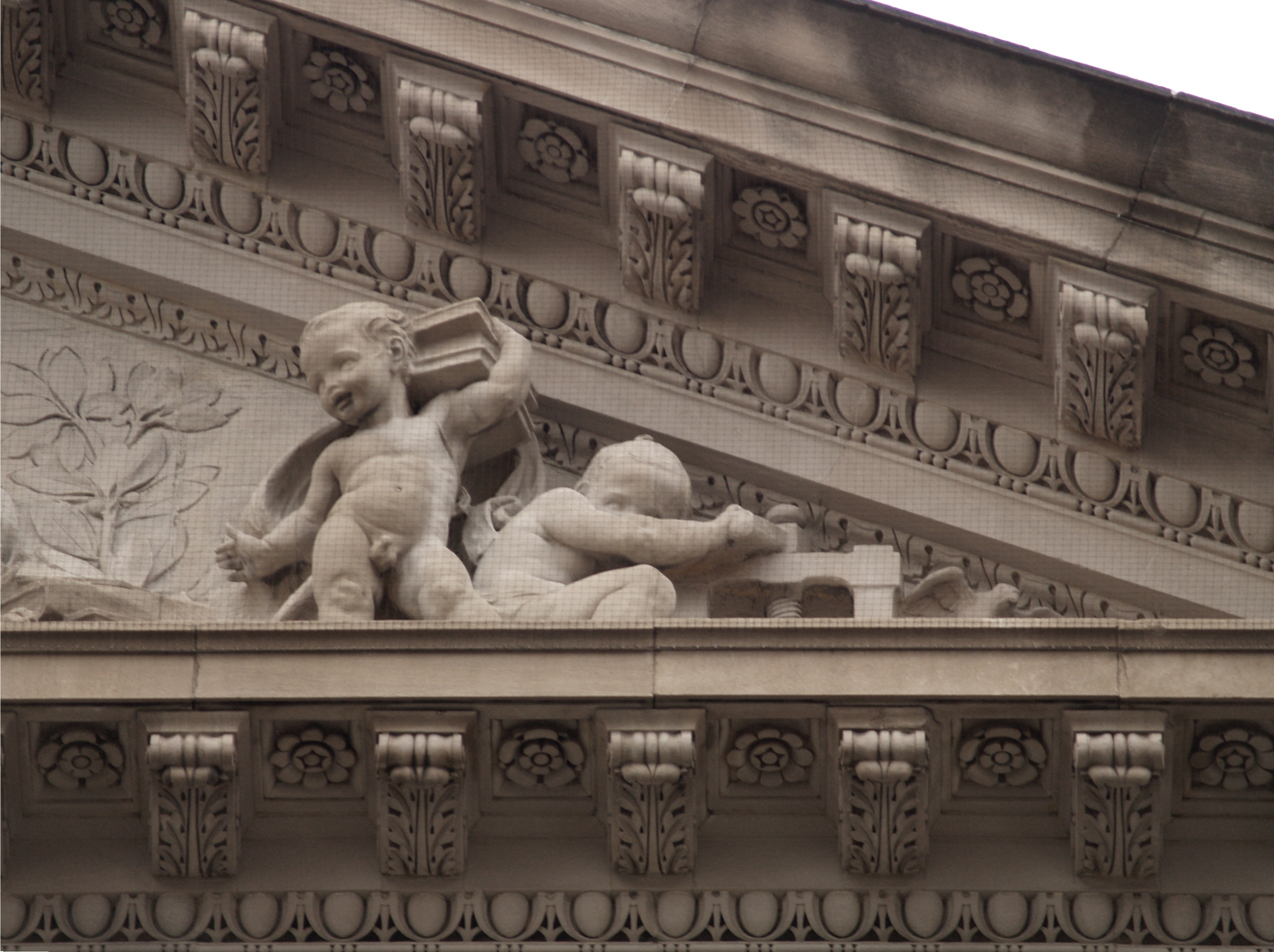 Detail of History of Printing Pediment (1925-27), John Donnelly, sculptor. Putti with books & screw printing press on the east pediment of the Parkway Central Library, 1901 Vine Street, Philadelphia, Pennsylvania (United States of America).